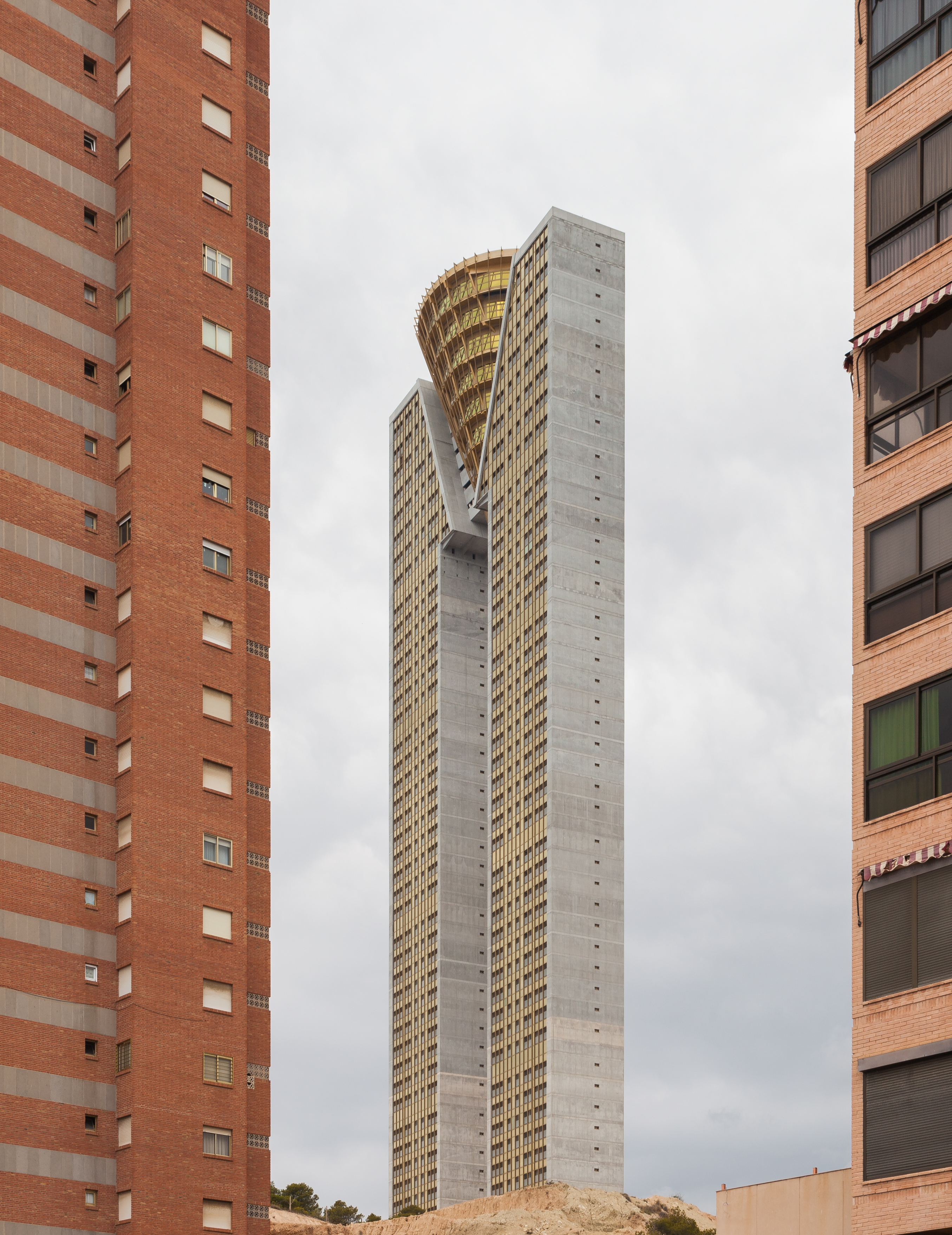 InTempo building, Benidorm, Spain